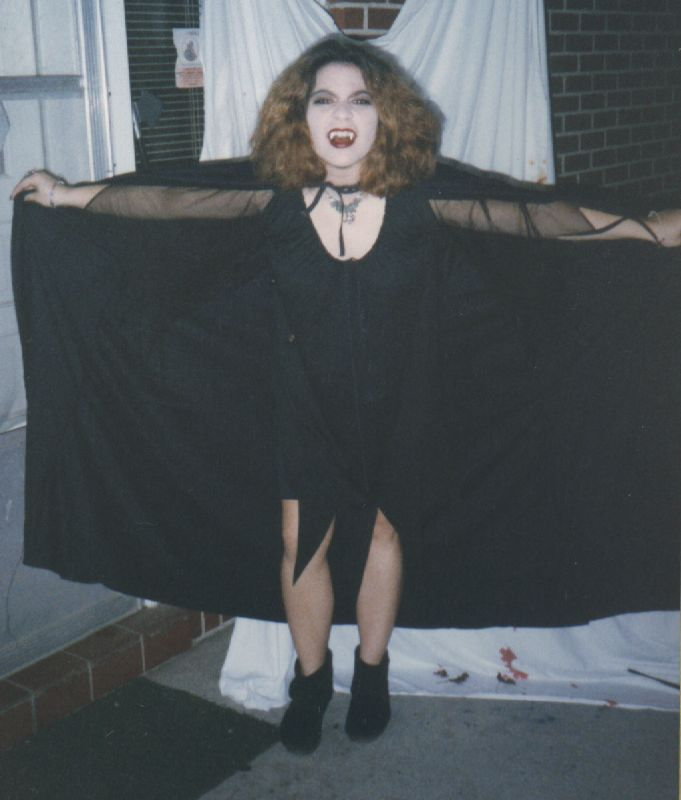 Showing off my fangs. Halloween 1995, Baton Rouge, Louisiana